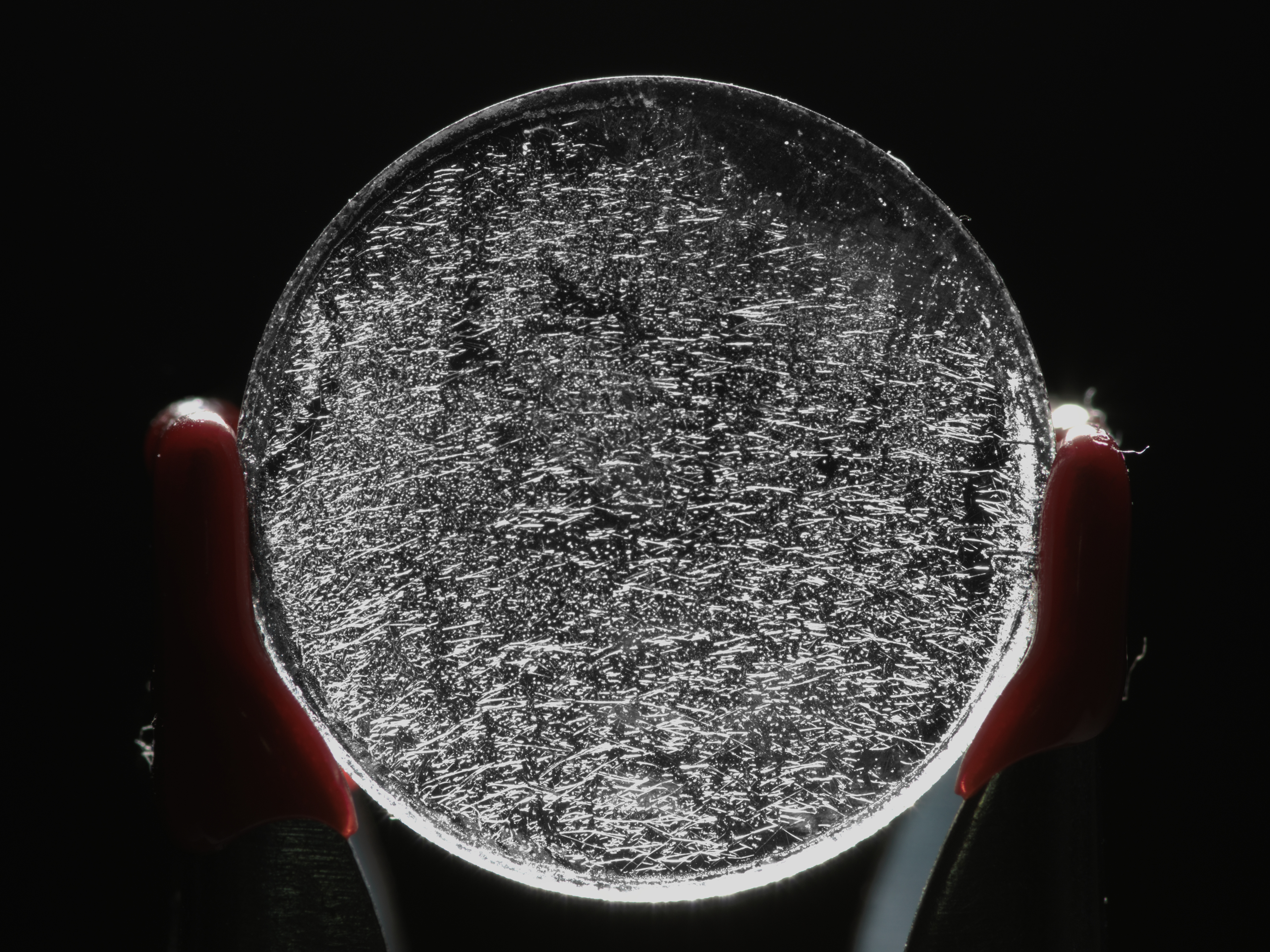 Mycelia (“lens fungus”) on the surface of a lens element. The element is ca. 1 cm in diameter and was taken from a broken Revuenon 1:3,5 f=28mm lens.